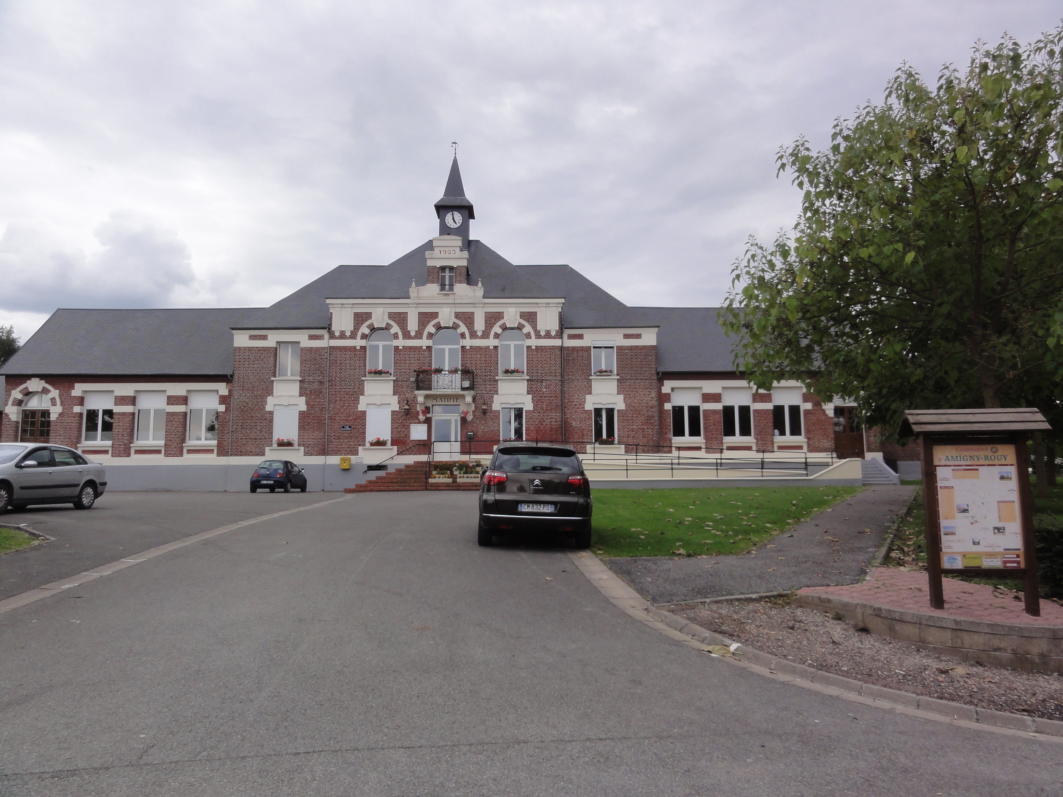 Amigny-Rouy (Aisne) mairie-école